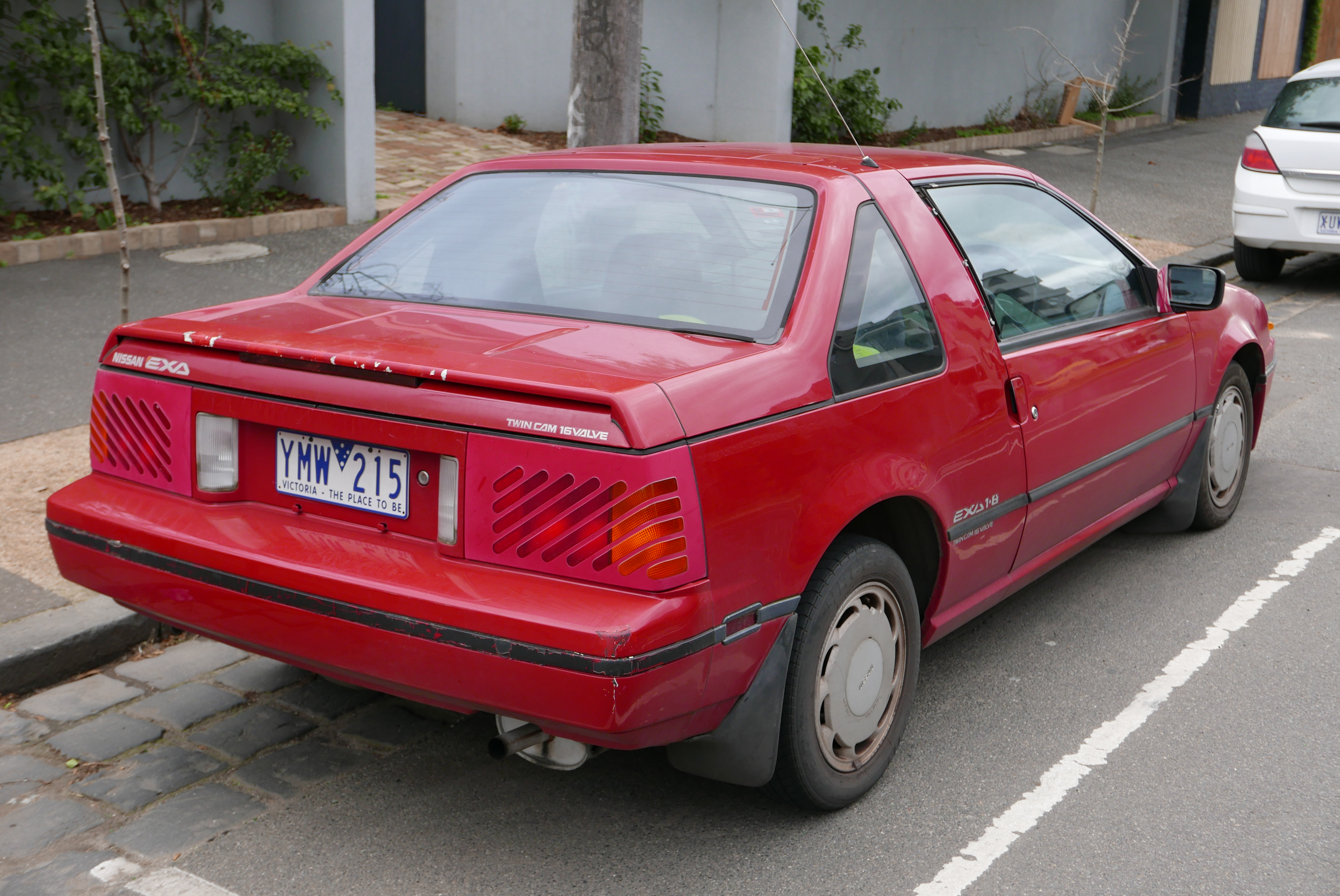 1990 Nissan EXA (N13 S2) coupe. Despite the date discrepancy with the vehicle registration information below, a check of the VIN reveals a build date of May 1990. Photographed in Carlton, Victoria, Australia. Vehicle registration enquiry results Jurisdiction Victoria Registration YMW215 Chassis code JN10KCN13A0106644 Engine code CA18079200W Compliance date 1991-03 Year of manufacture 1990 (not a typo)